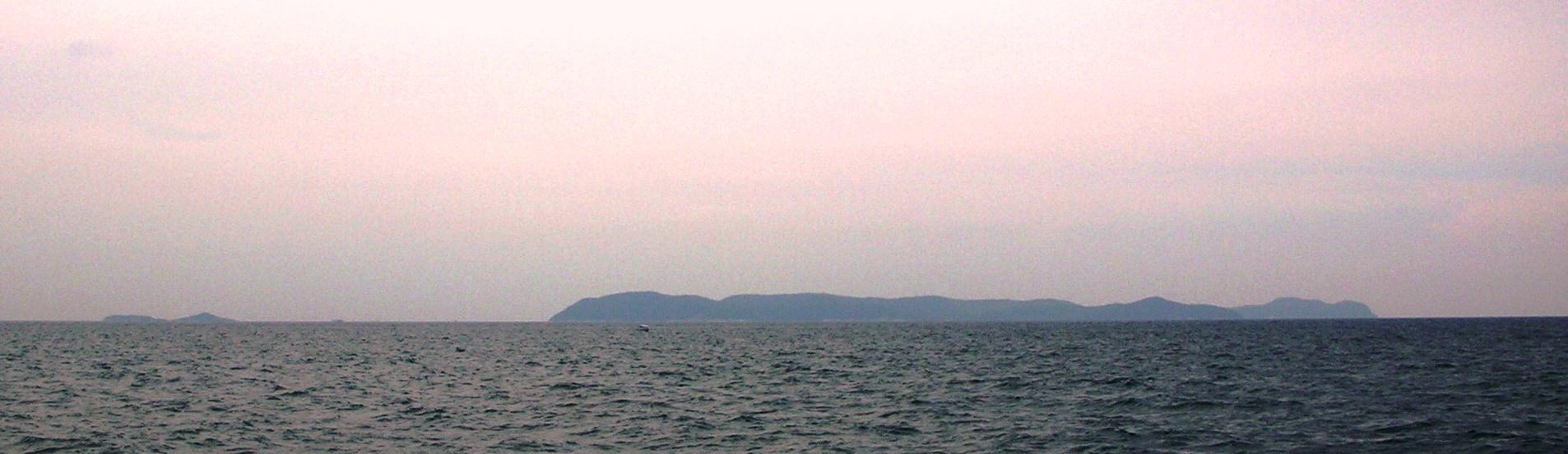 Ko Phai group